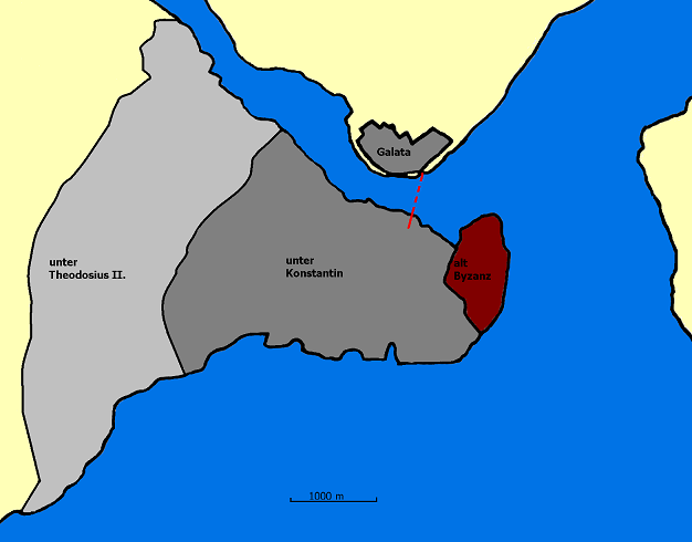 Graphic shows the Golden Horn at Constantinople (now Istanbul, Turkey) during different times. Descriptions are in German.